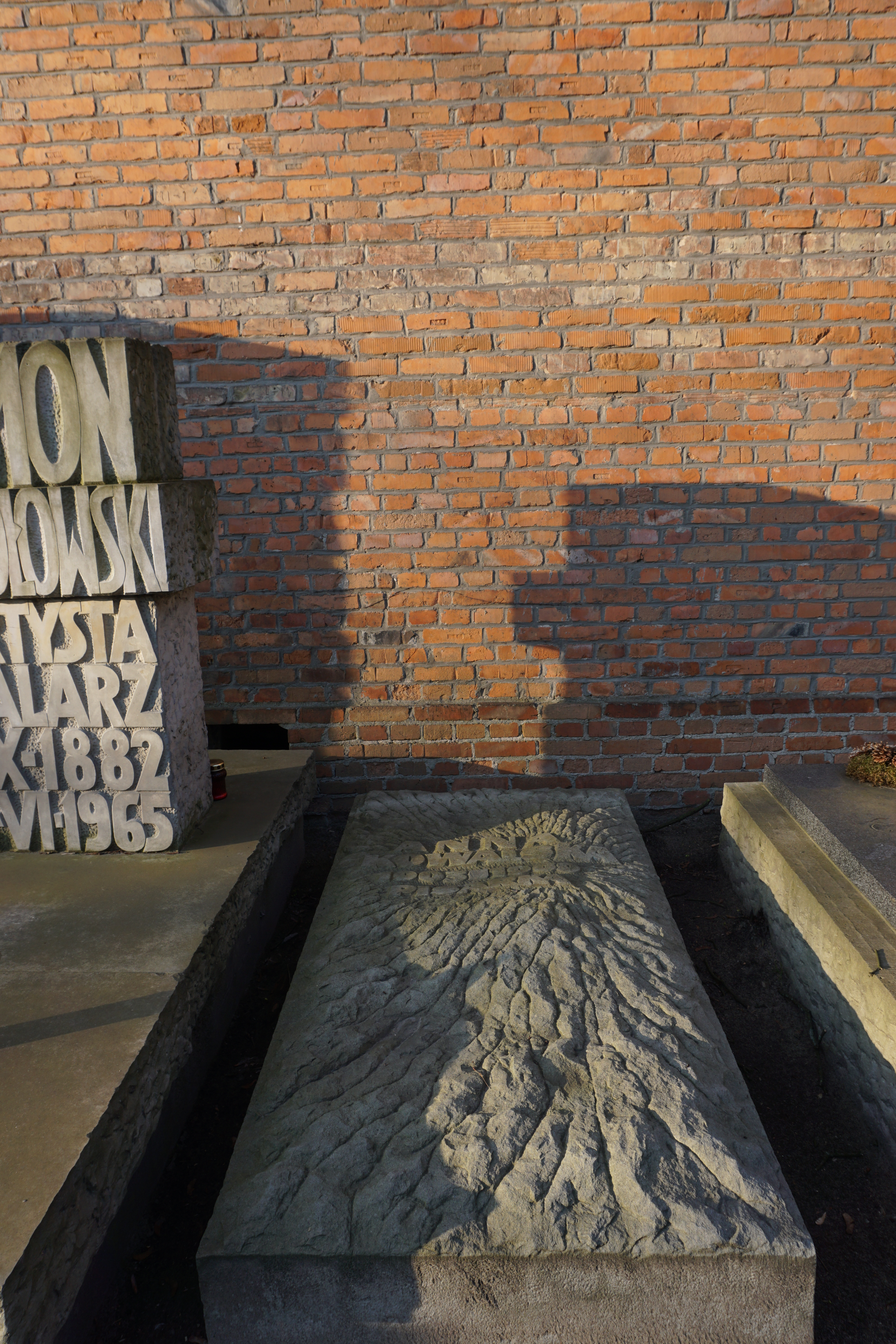 The grave of Anna Kowalska at the Powązki Cemetery (Avenue of Deserved, grave 143)